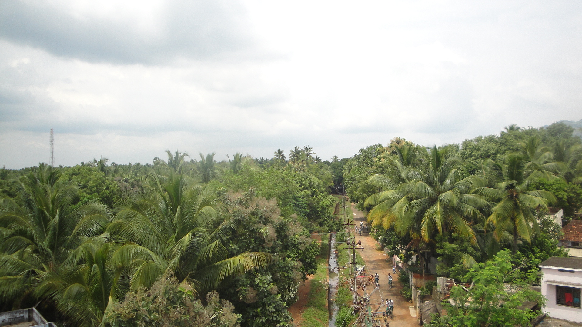 madathattuvilai chanel